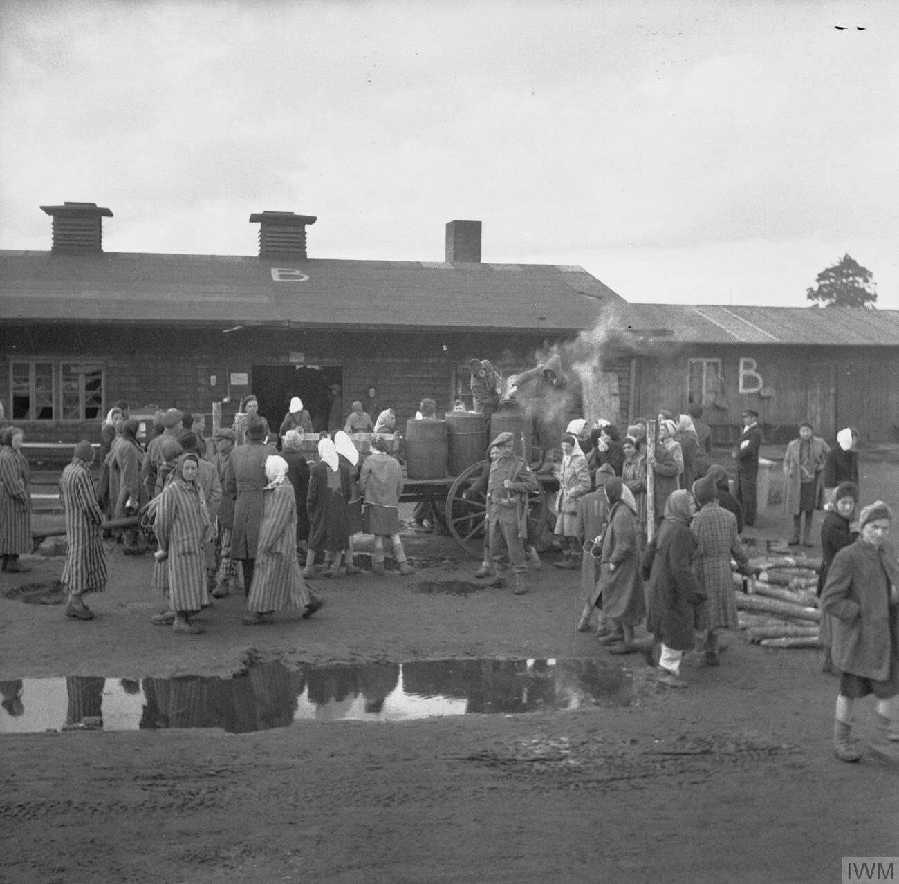 Liberation of Belsen Concentration Camp April 1945: British soldiers supervise the distribution of food to camp inmates.